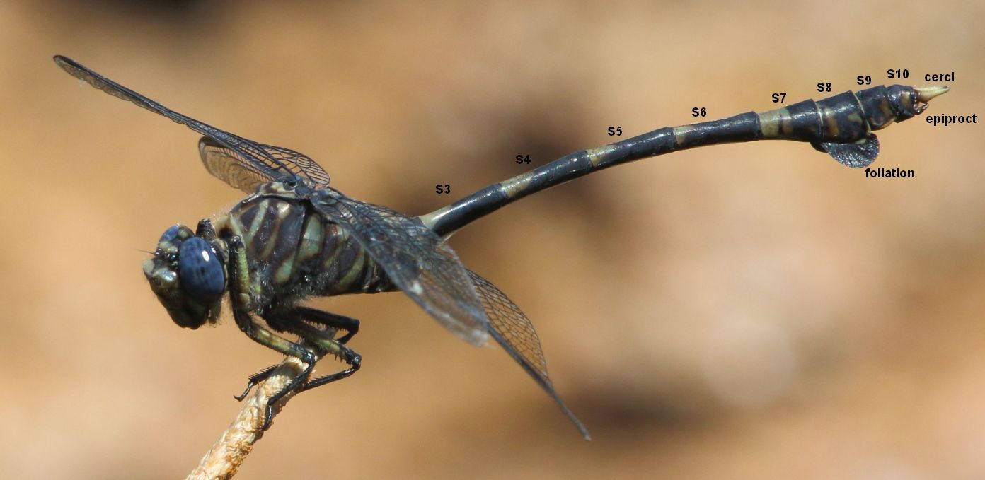 Male Ictinogomphus ferox (common tigertail) with annotated abdomen; Vernon Crooks Nature Reserve; OdonataMAP record 20908